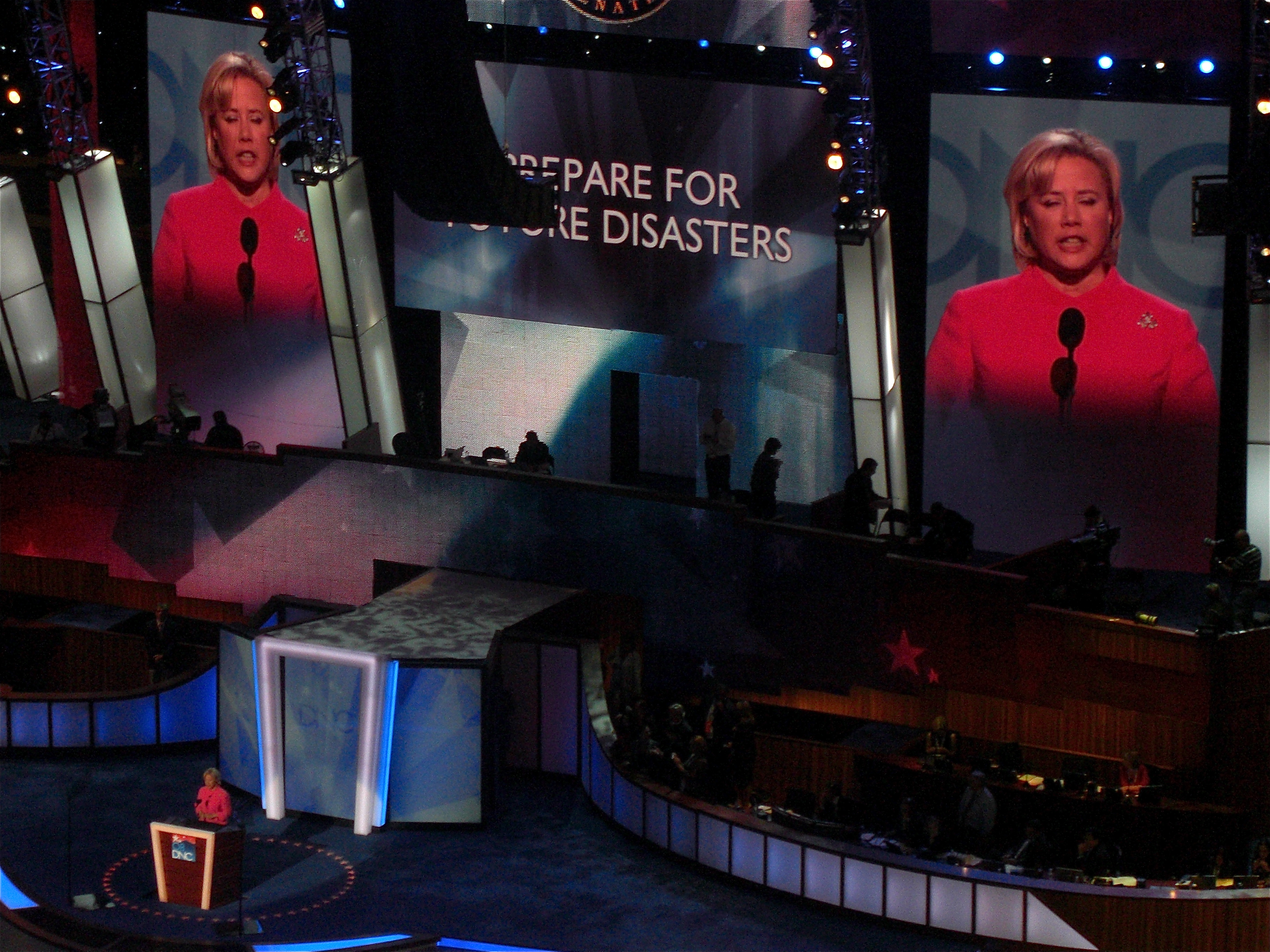 Mary Landrieu speaks during the second day of the 2008 Democratic National Convention in Denver, Colorado, United States.